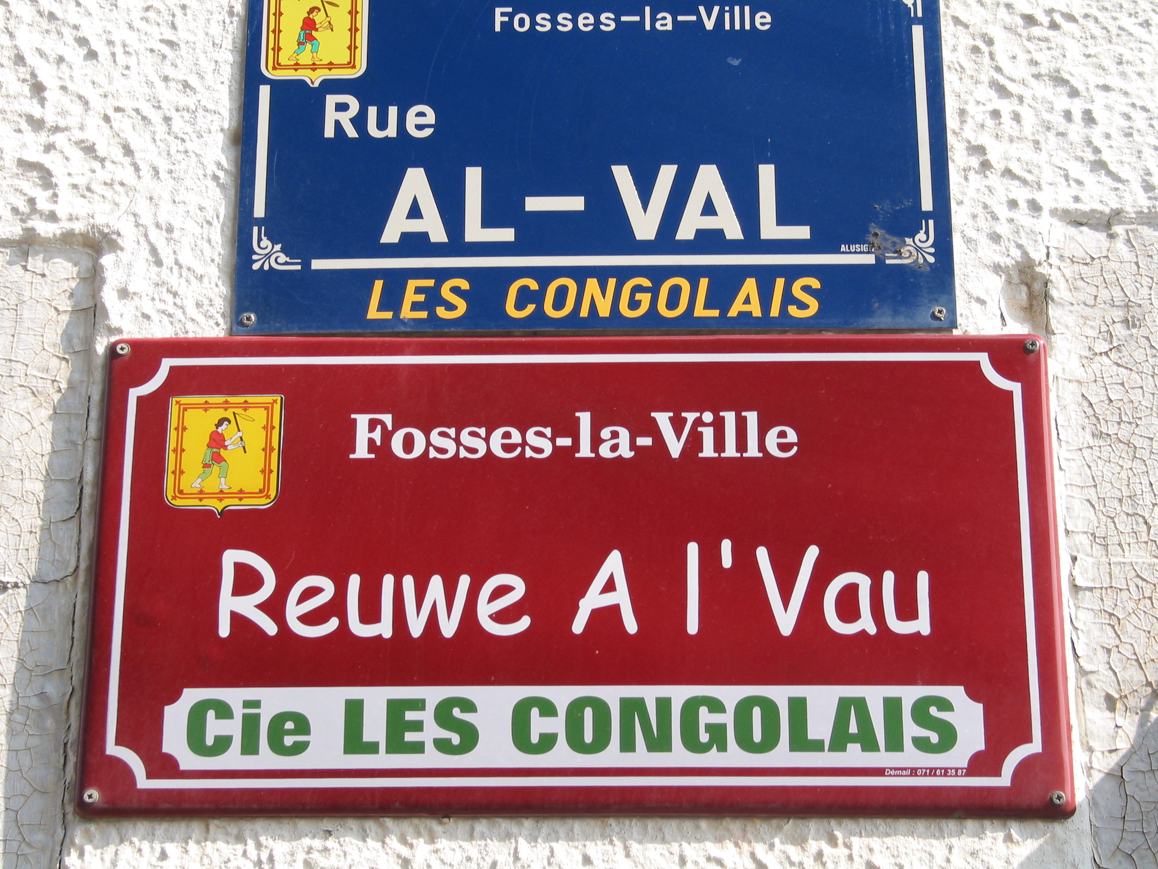 Fosses-la-Ville (Belgium), enameled street sign writen in Walloon.